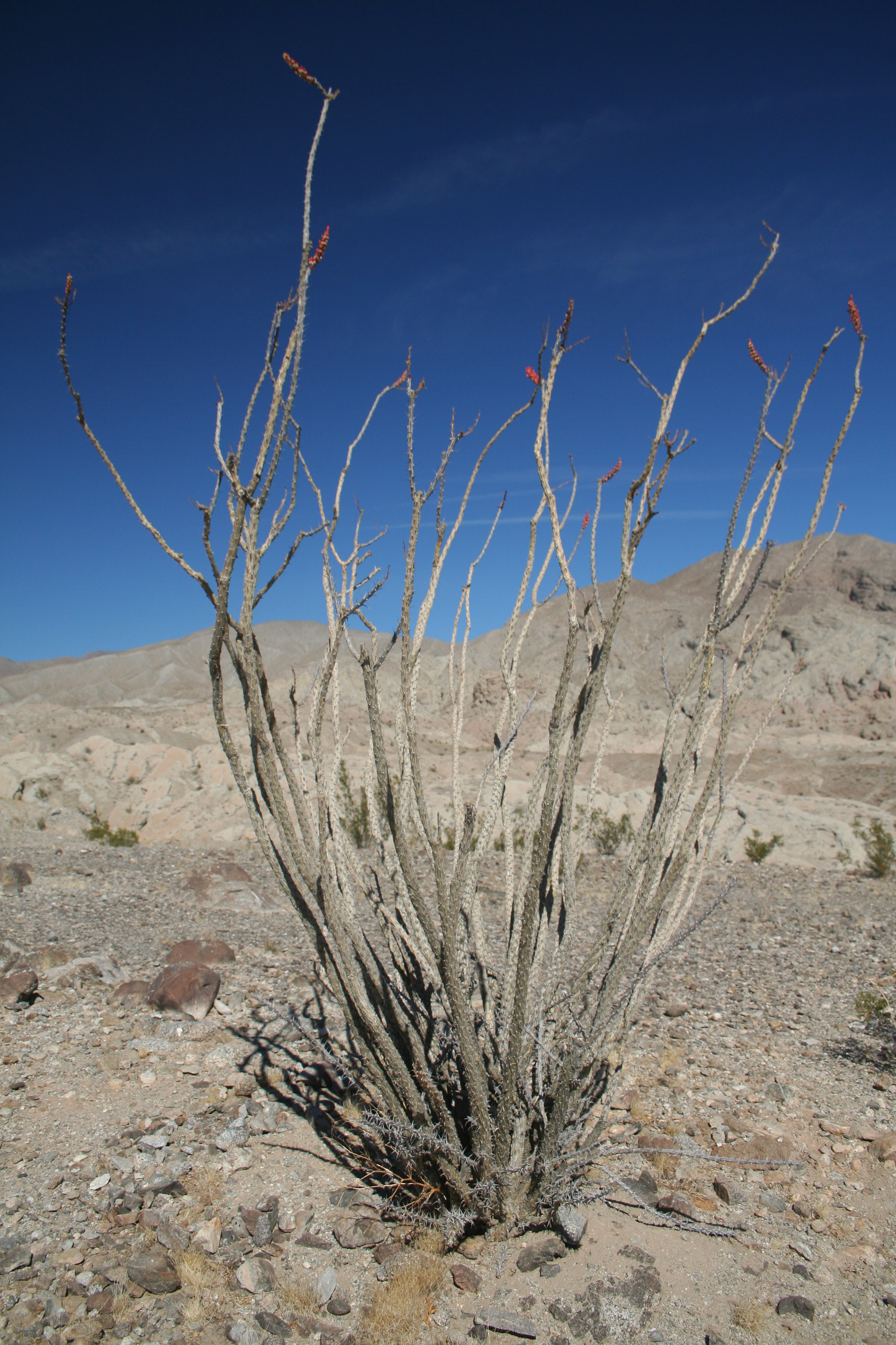 Photographed by and copyright of (c) David Corby (User:Miskatonic, uploader) 2006 Ocotillo taken in Anza Borrego